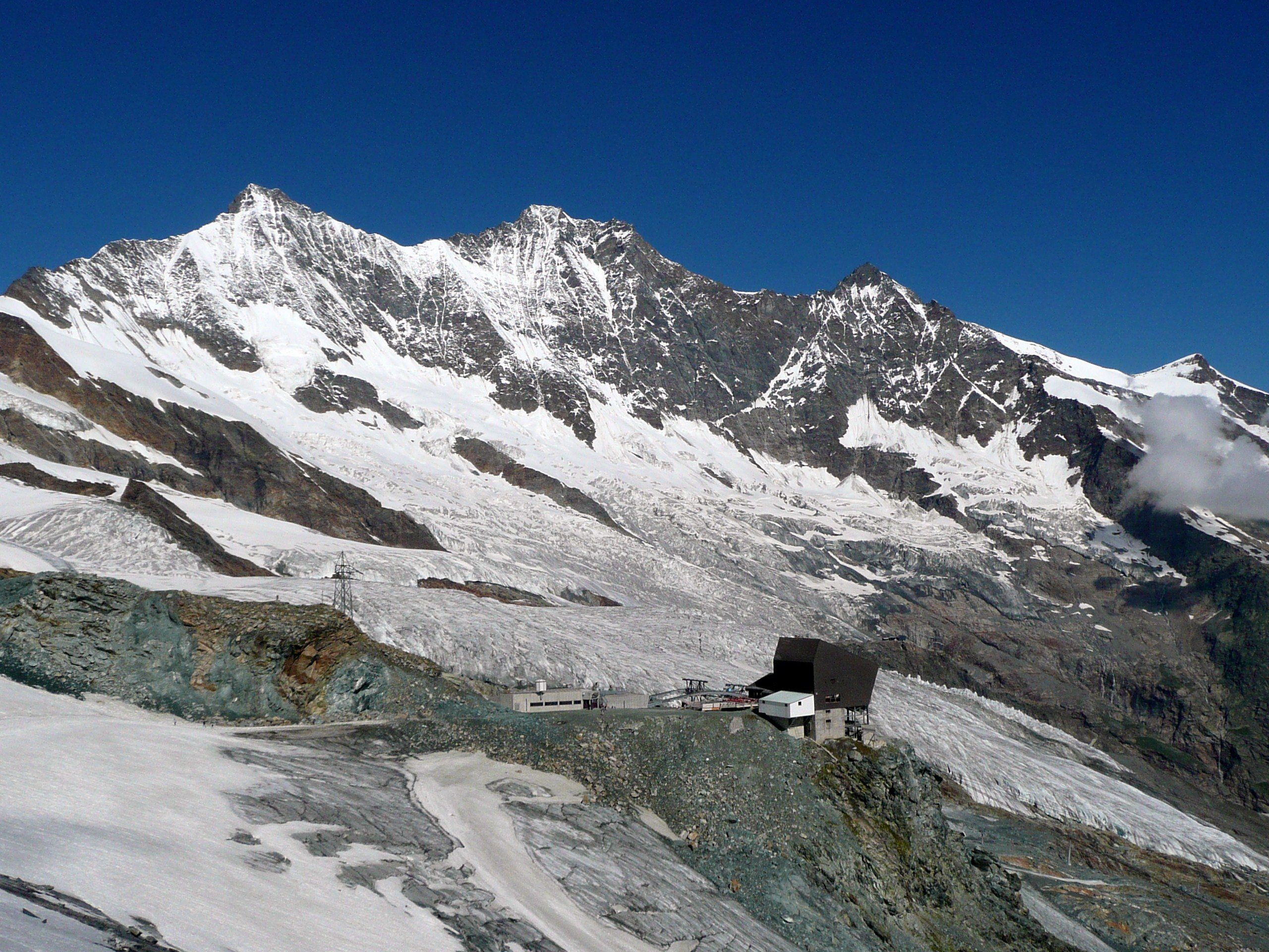 Mountain station Felskinn and Mischabel group. From the left Täschhorn (4490m), Dom (4545m), Lenzspitze (4294m), Ulrichshorn (3925m). In front the Fee glacier.